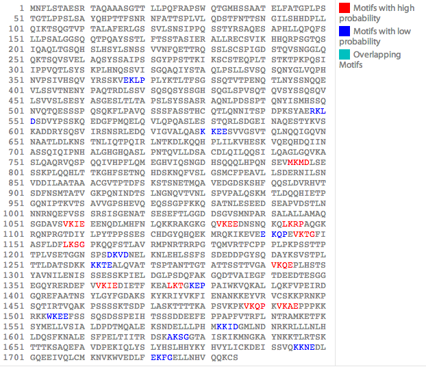 ExPASy SUMOplot predicted SUMOylation sites in homo sapiens QSER1 protein.